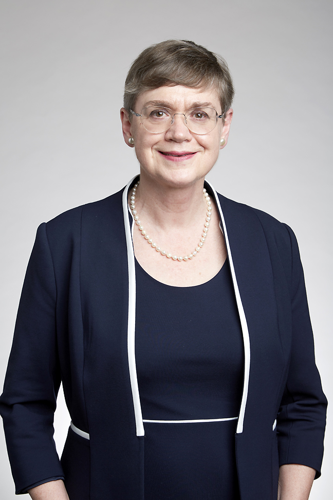 Sarah (Sally) L. Price FRS is Professor of Physical Chemistry at University College London. Attribution: The Royal Society